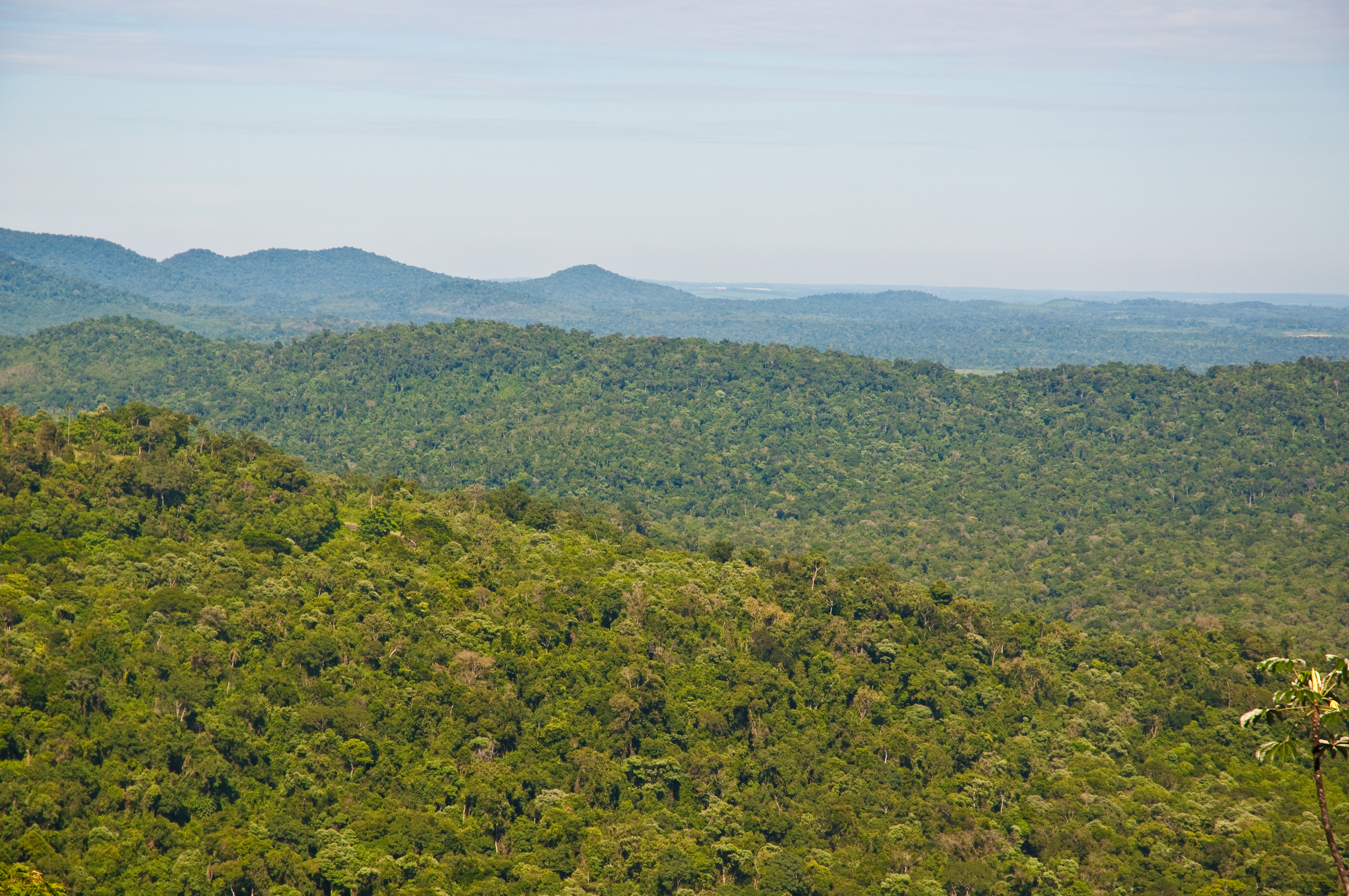 Sierra de Misiones, Argentina, 5th. Jan. 2011